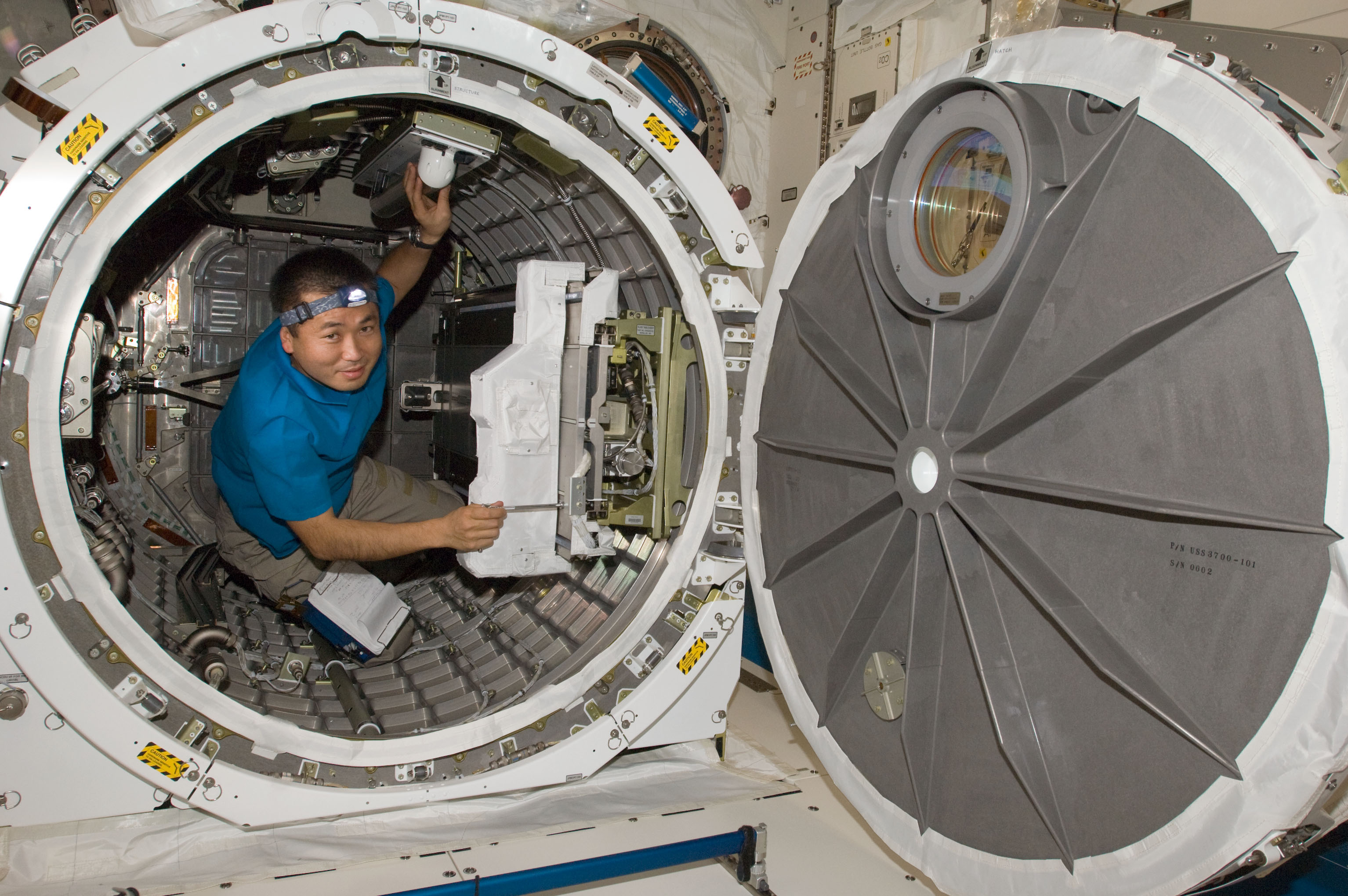 Kibo airlock